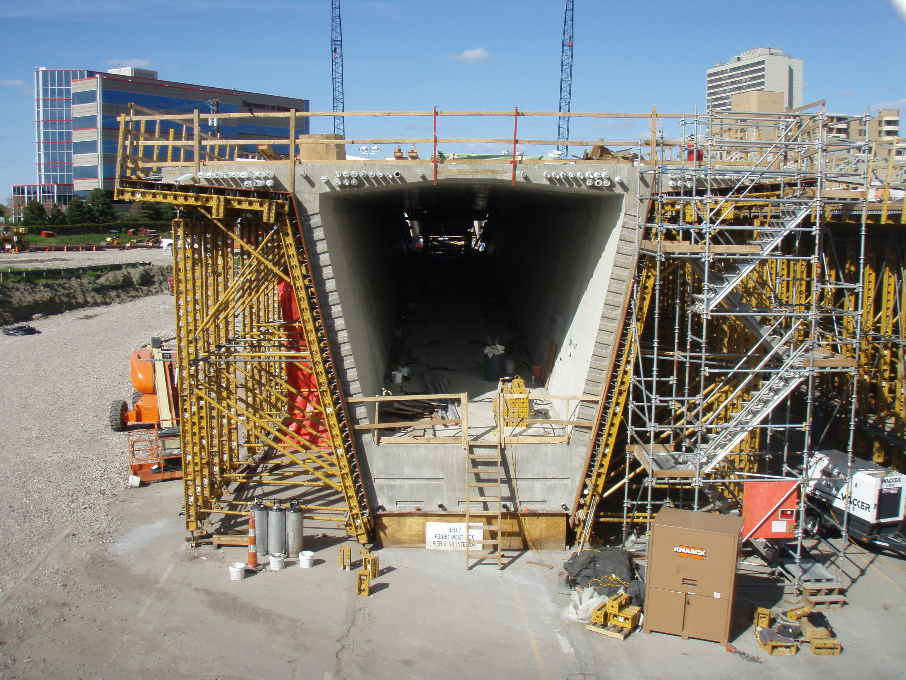 An end view of one of the sections being cast for the St. Anthony Falls (35W) Bridge.